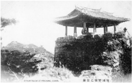 View of the Ulmil Pavillion. Postcard published in 1910